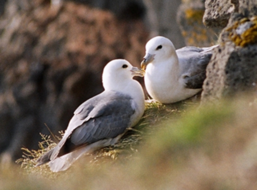 Fulmars (Fulmarus glacialis) at their nest in Látrabjarg, Iceland